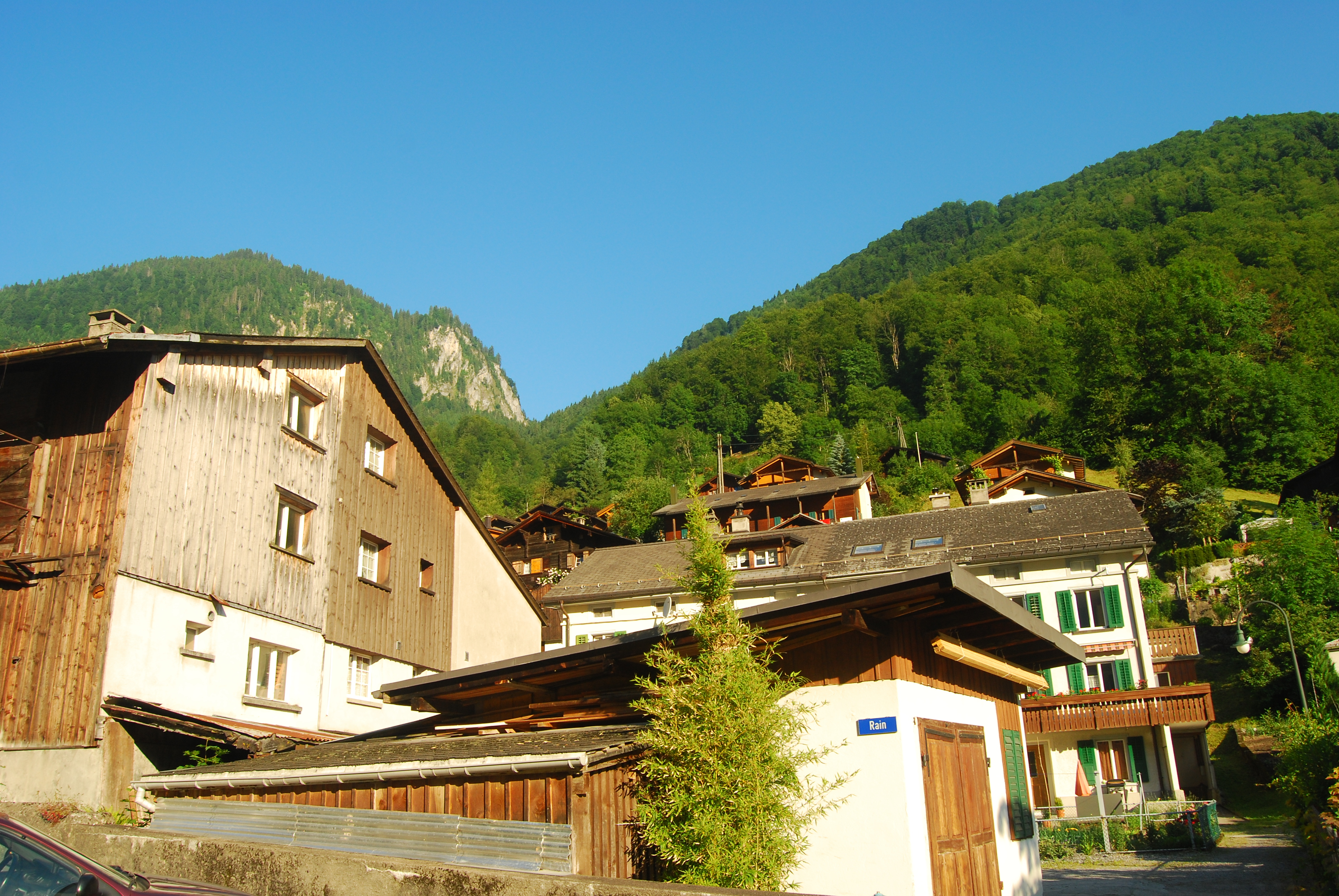 Luchsingen, canton of Glarus, Switzerland